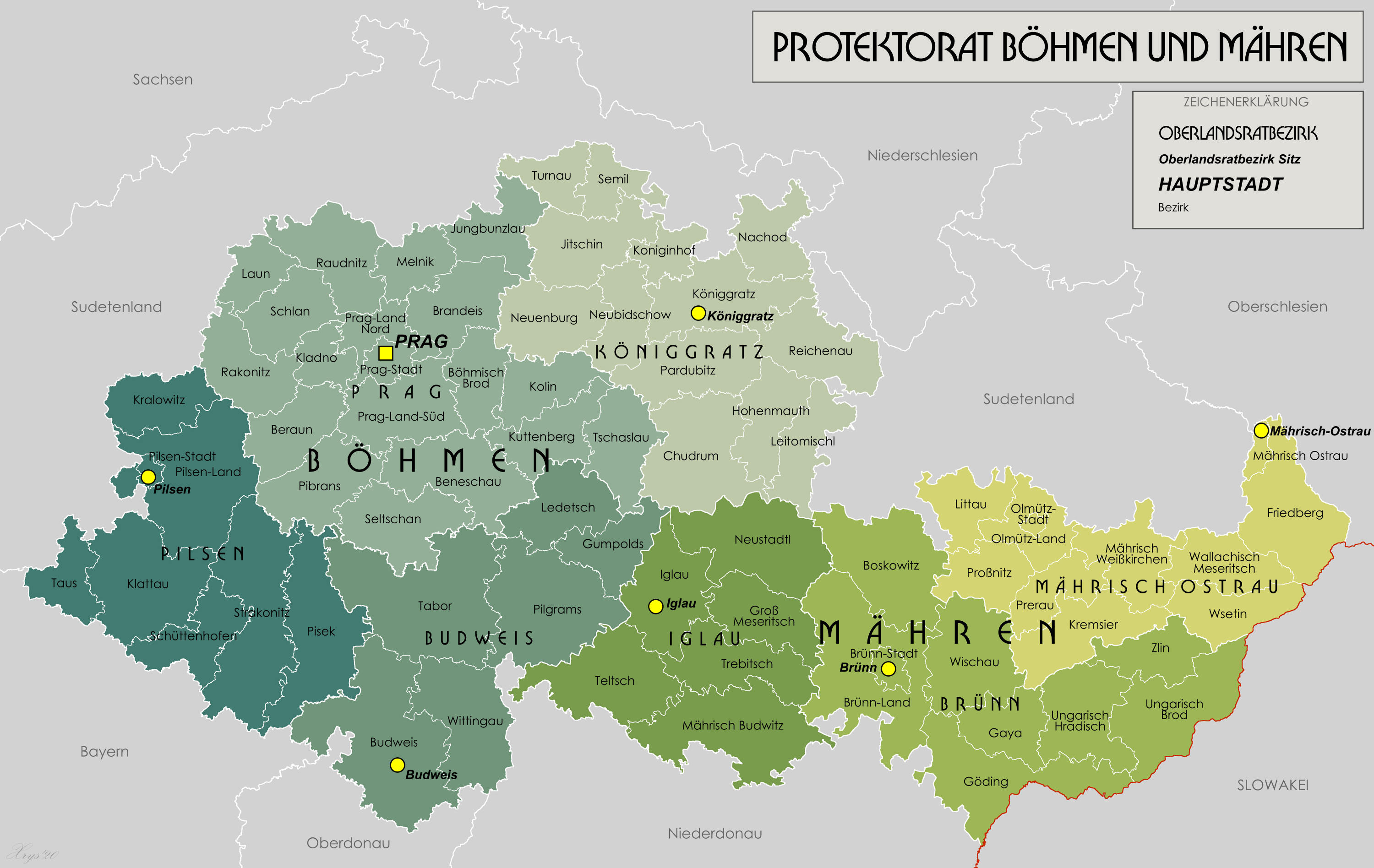 Administrative map of the Protectorate of Bohemia-Moravia